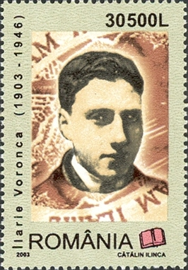 Stamps of Romania, 2003